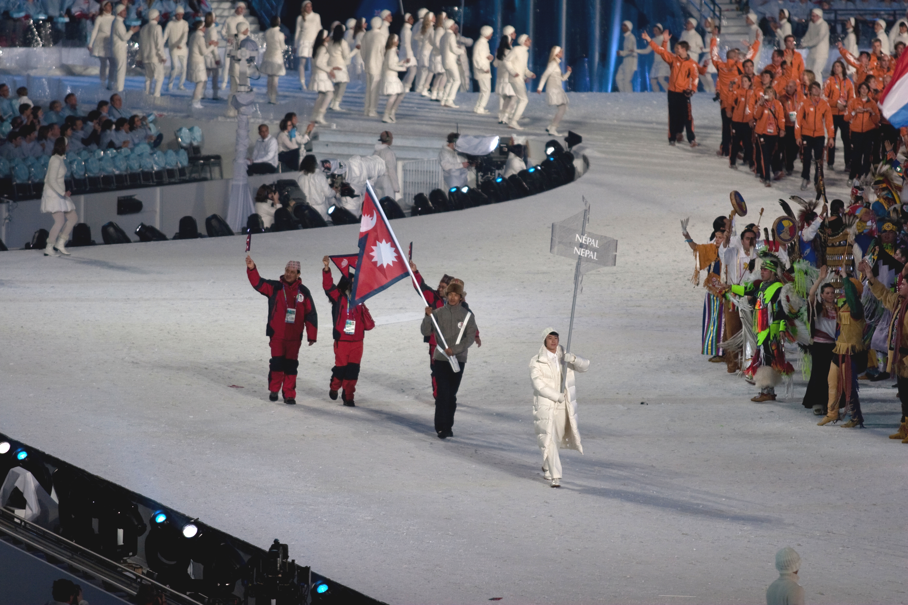 The athletes from Nepal entering the stadium at the opening ceremonies of the 2010 Winter Olympics